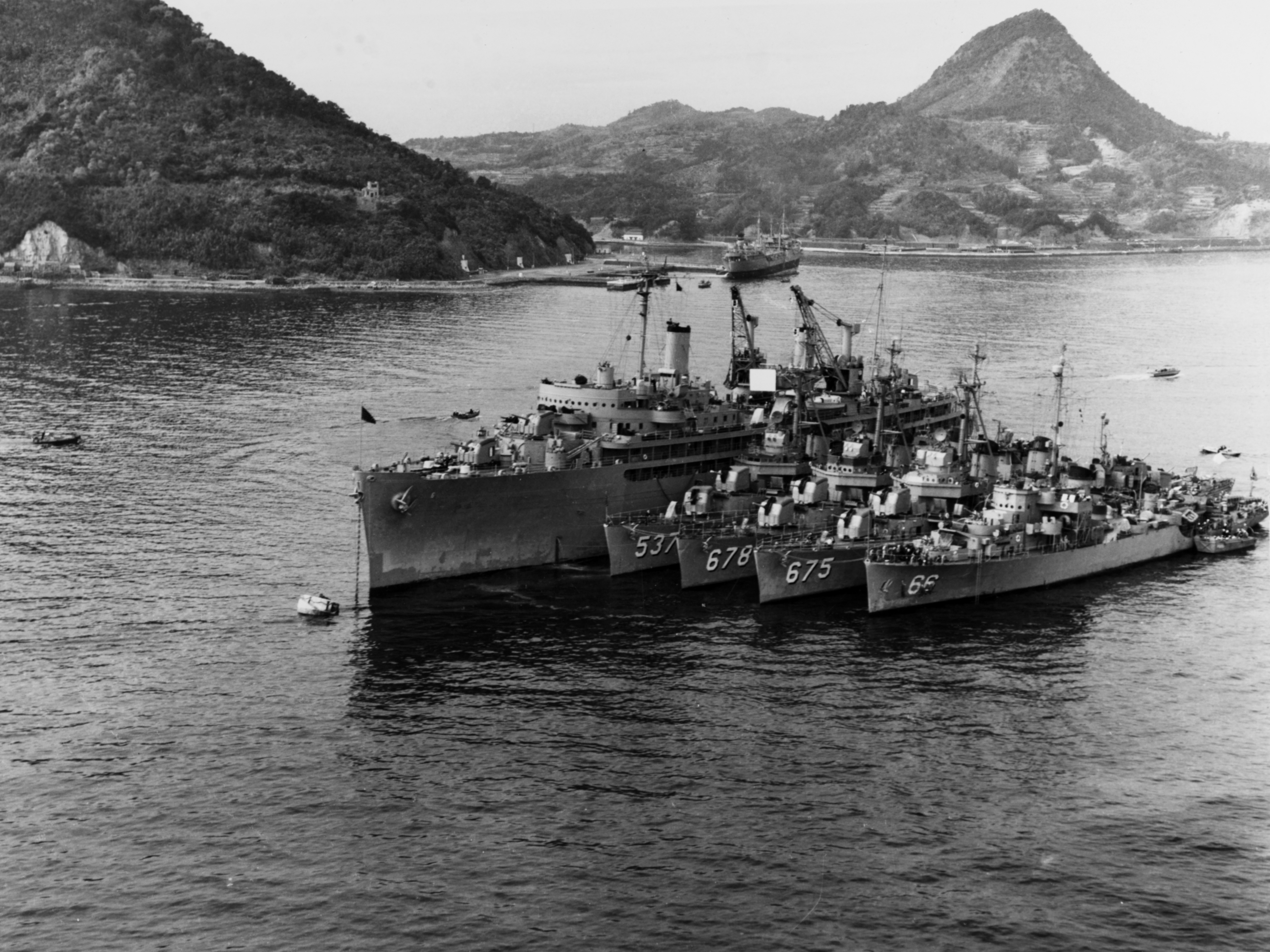 The U.S. Navy repair ship USS Ajax (AR-6) tending destroyers and patrol vessels at Sasebo, Japan, on 14 December 1952. Ships nested along her port side include (left to right): USS The Sullivans (DD-537); USS McGowan (DD-678); USS Lewis Hancock (DD-675) and Korean frigate Imchin (66), ex USS Sausalito (PF-4)